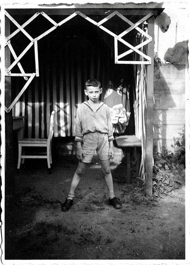 Uri Avnery (Hebrew: אורי אבנרי, also transliterated Uri Avneri, born 10 September 1923) is an Israeli writer and founder of the Gush Shalom peace movement.